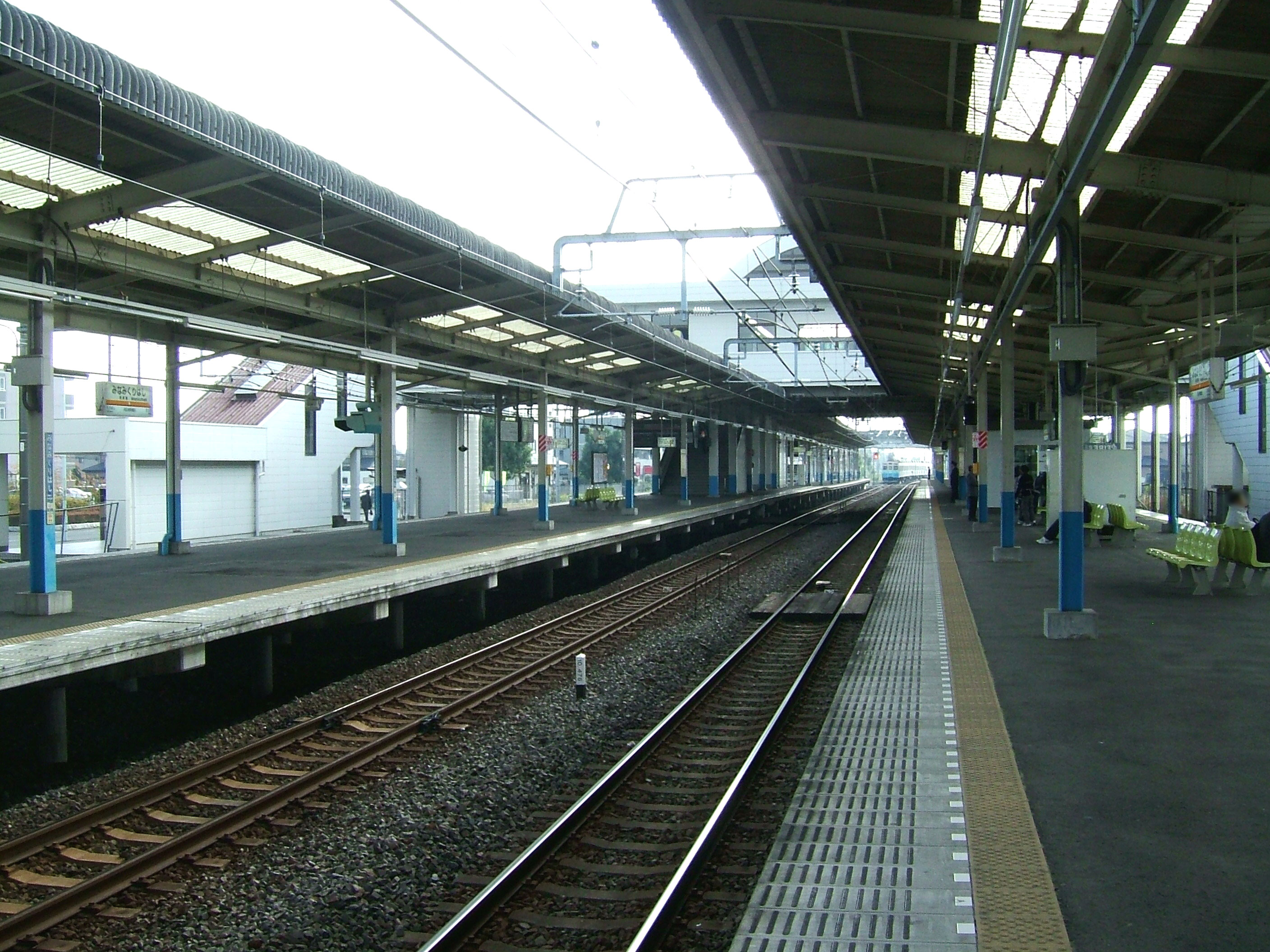 The platforms at Minami-Kurihashi Station on the Tobu Nikko Line in Saitama Prefecture, Japan